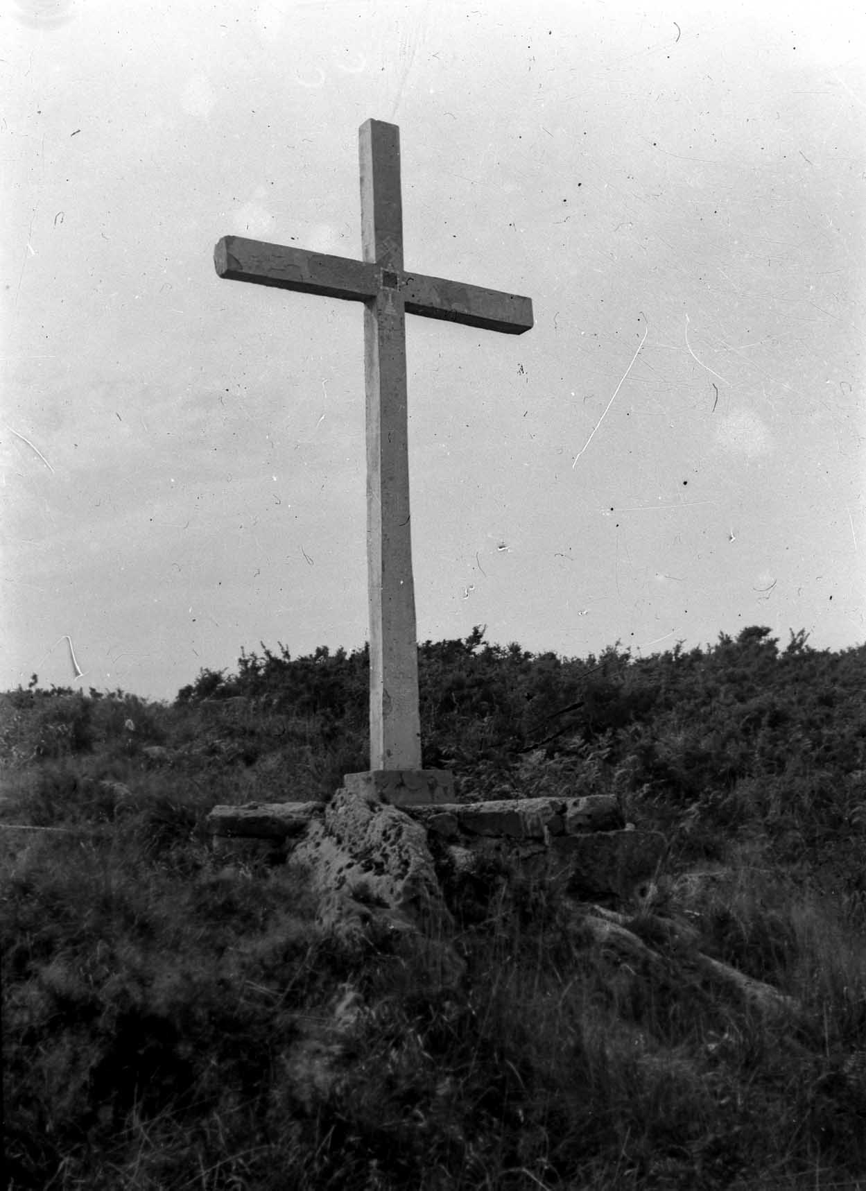 Cross in Andatza summit